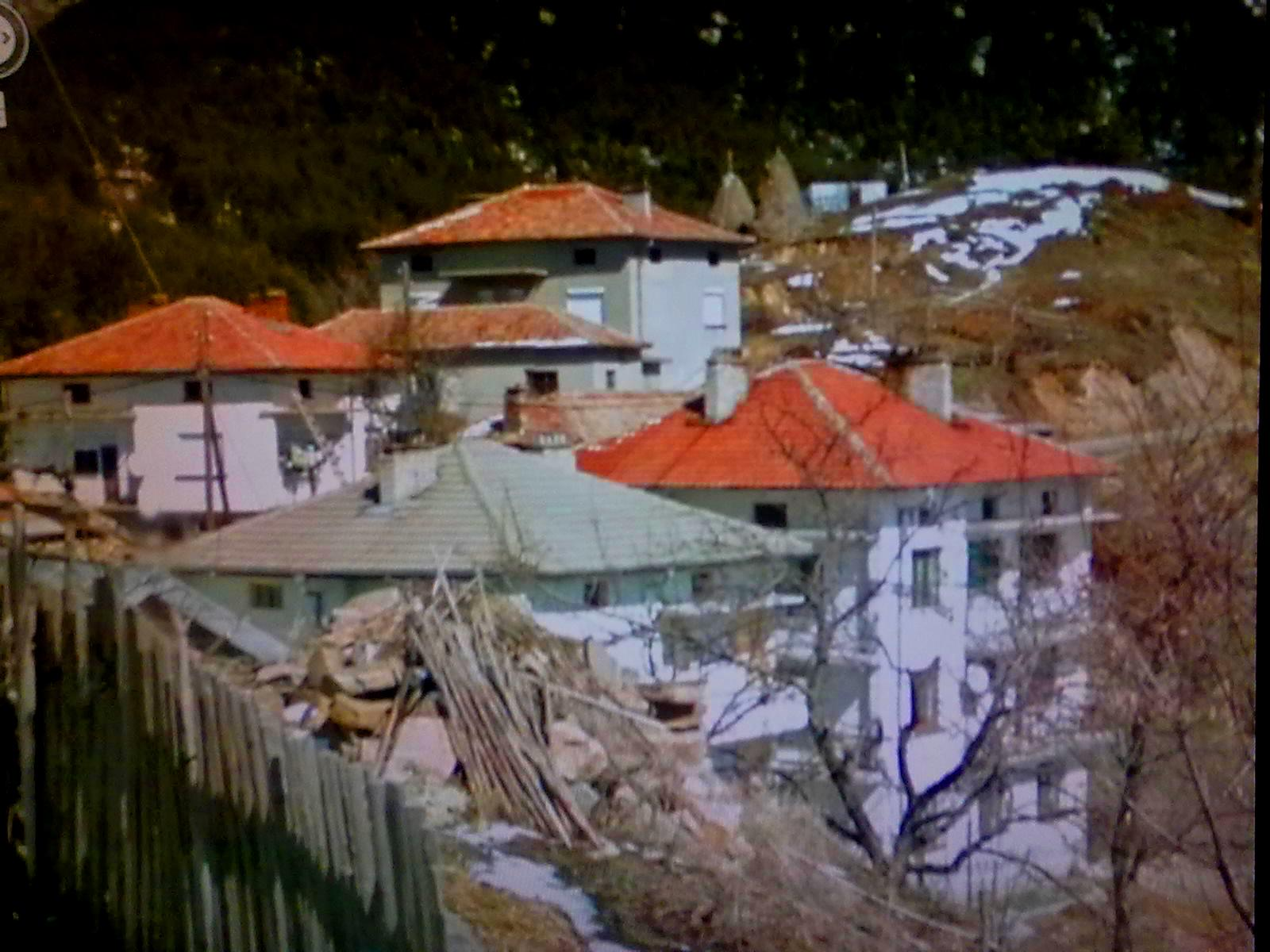 Изглед на Махала Юрунце